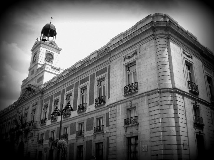 EDITED in to be a Black and white photograph, ref. Puerta del Sol in Madrid of the Real Casa de Correos by Professional Photographer David Adam Kess